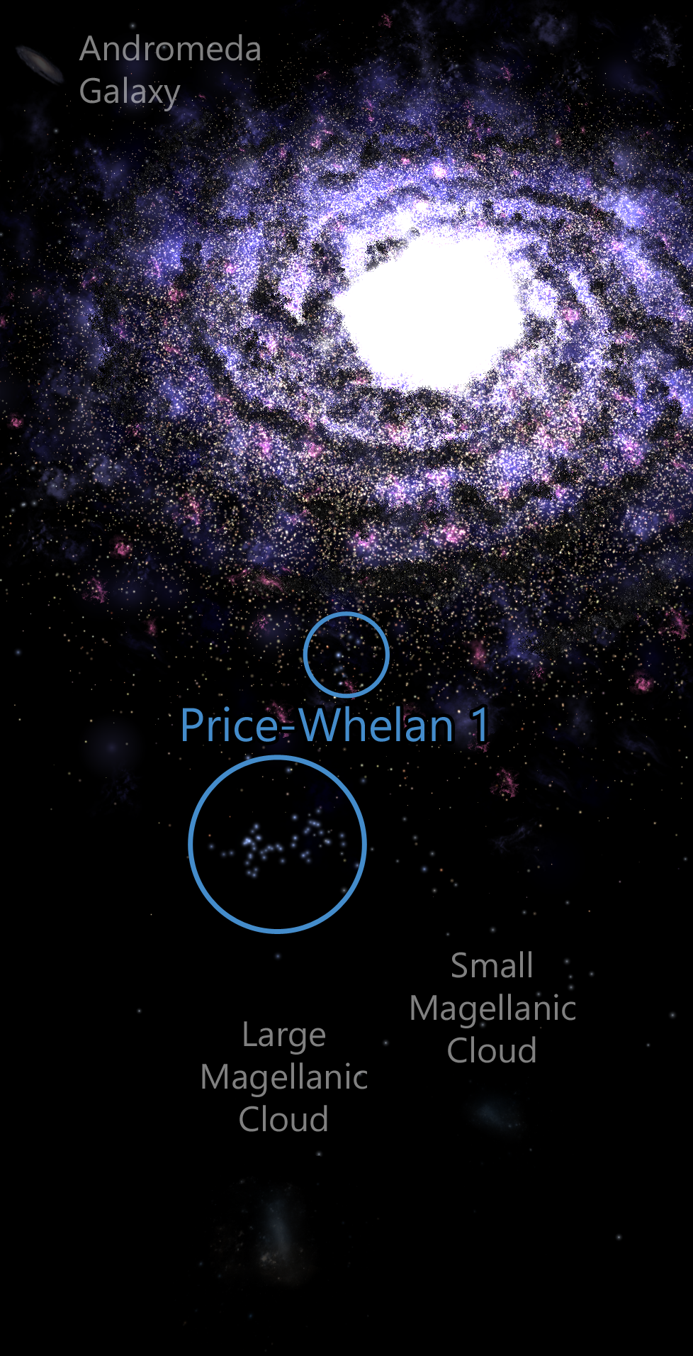 The star cluster Price-Whelan 1 was discovered with the Gaia Spacecraft in 2019 discovery article In the upper right corner is the Andromeda Galaxy, in the upper part the Milky Way Galaxy dominates. In the lower part of the image are the Large and Small Magellanic Clouds. In between is the star cluster Price-Whelan 1. The image was created using the software Gaia Sky (U. Heidelberg/Zentrum für Astronomie) and Photoshop Elements 12.0. For the dataset 76 stars were selected, using Gaia DR2 (Gaia Collaboration 2018) and the given parameters by Price-Whelan et al. 2019.